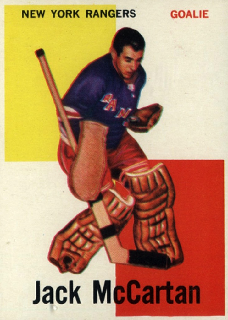 Jack McCartan